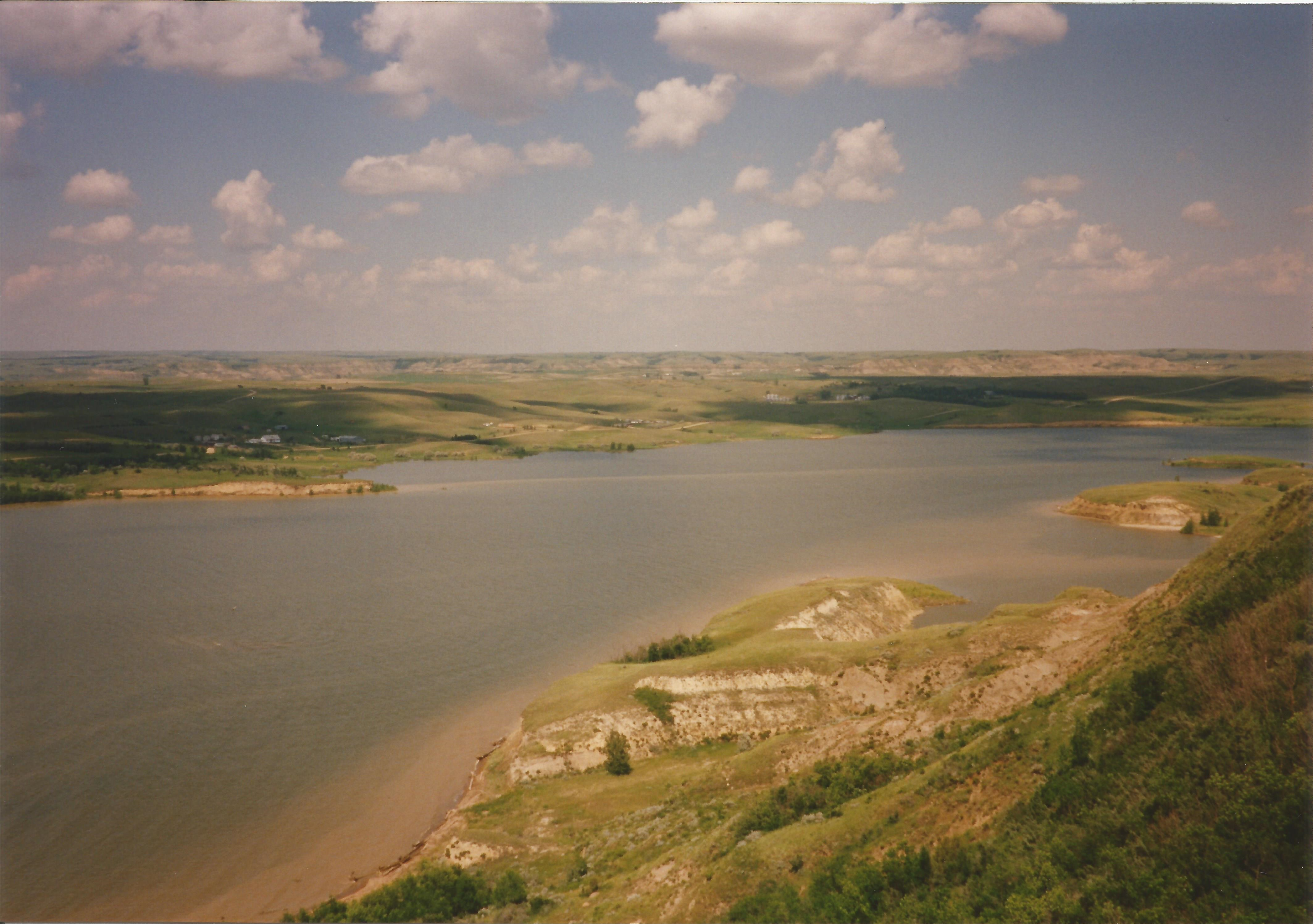 View over Lake Sakakawea/Missouri River from Crow Flies High view point, Fort Berthold Indian Reservation, North Dakota